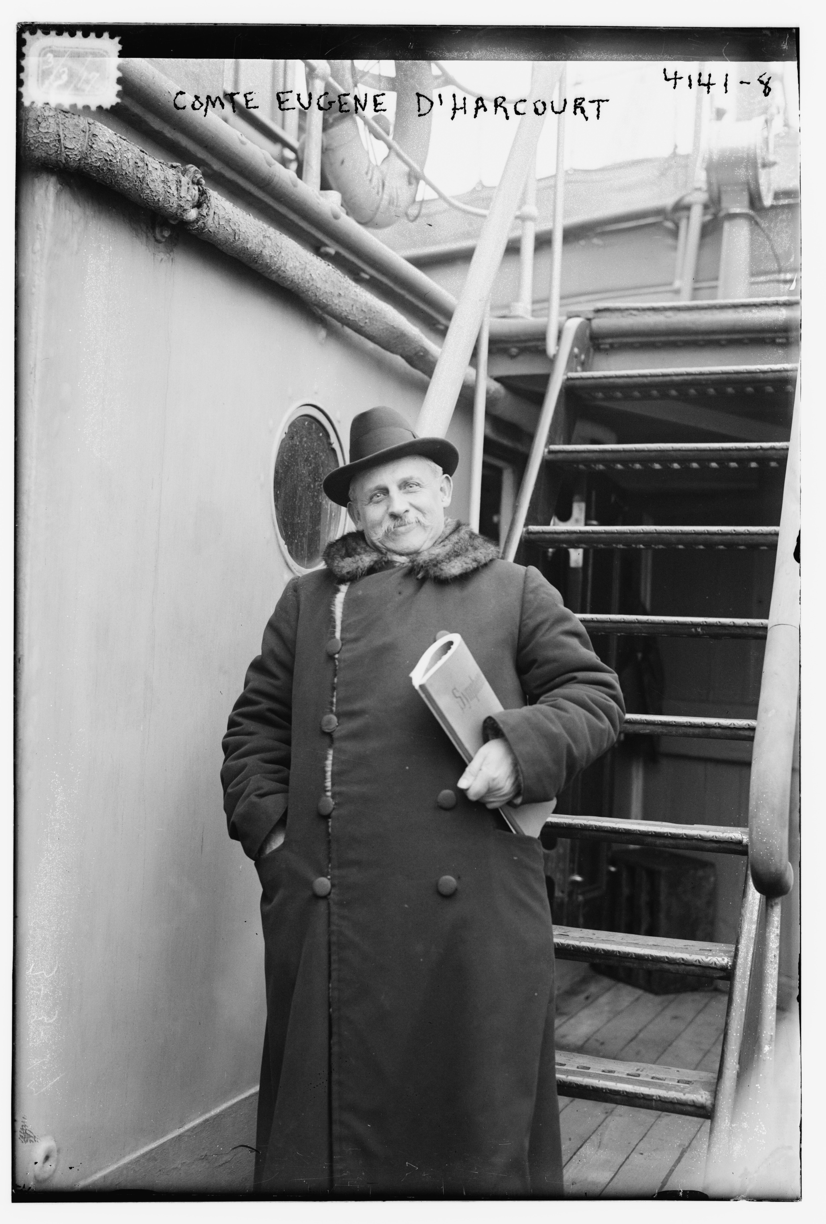 Eugène d'Harcourt in 1917